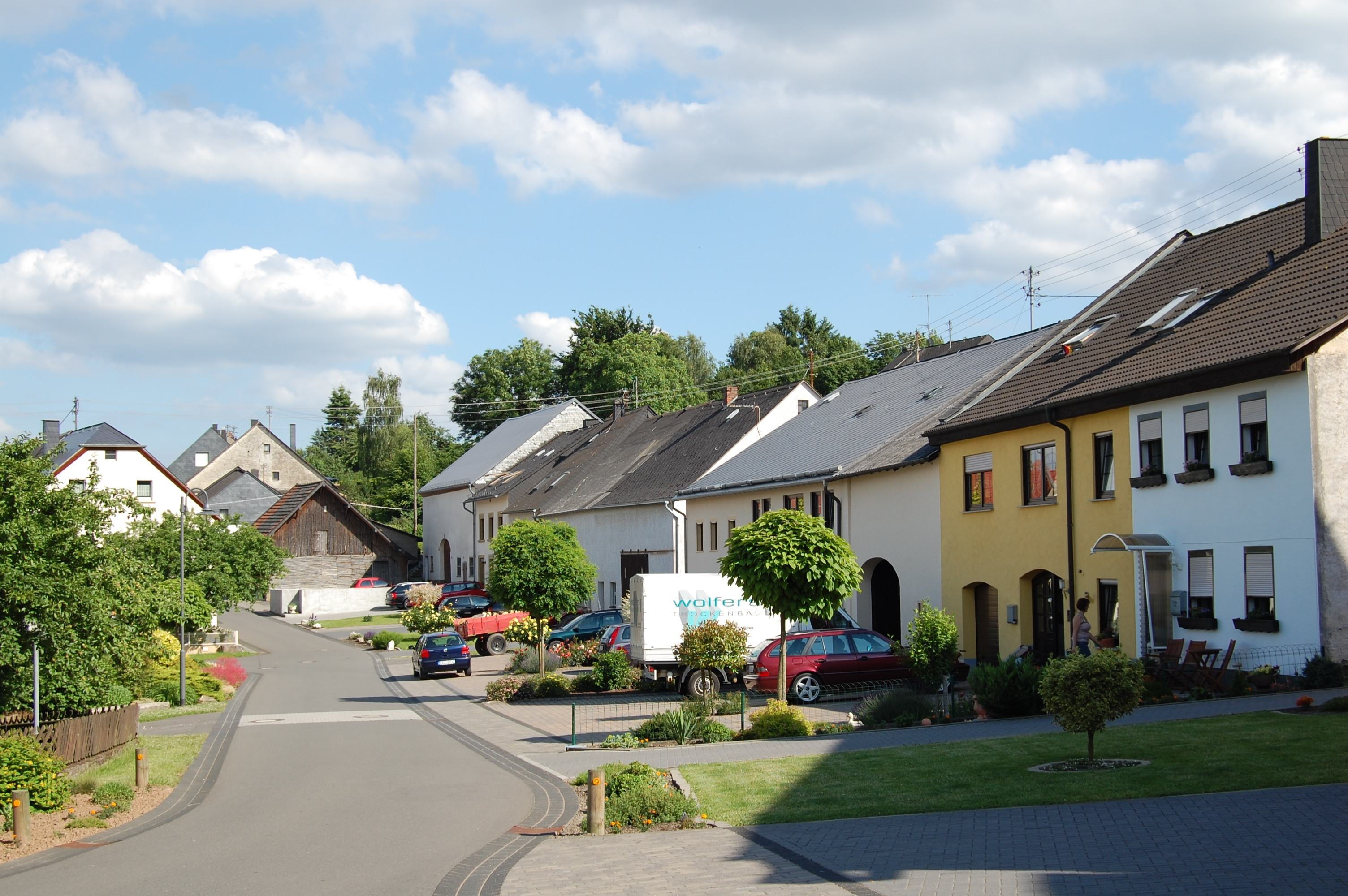 Village Immert in the Hunsrück landscape, Germany